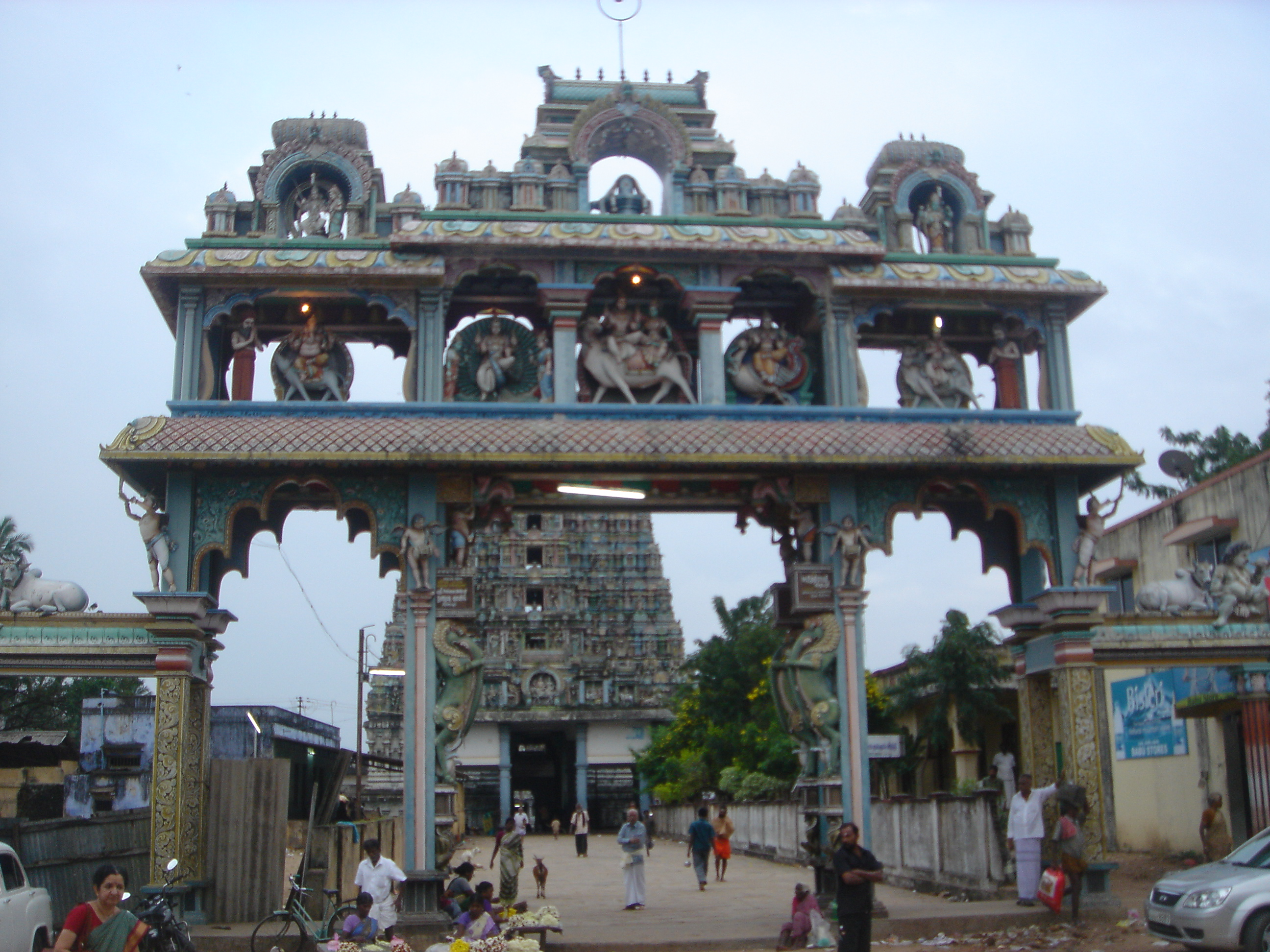 The entrance to the temple of Abirami at Thirukadaiyur, Tamilnadu